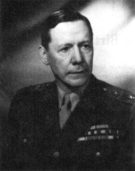 Allen W. Gullion, Judge Advocate General of the U.S. Army